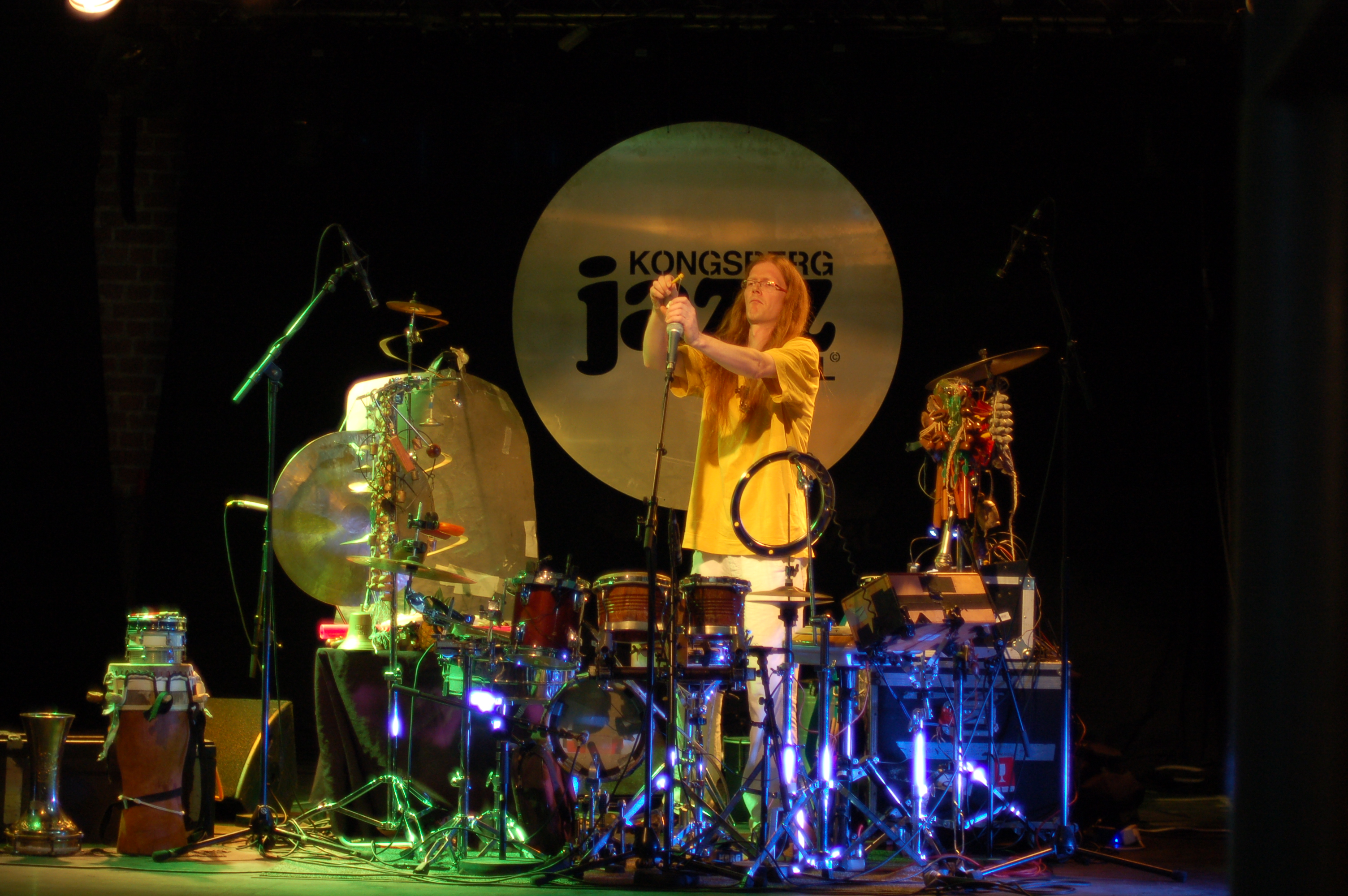 Kenneth Ekornes at Kongsberg Jazzfestival. Photographer: Thomas Bjørndahl